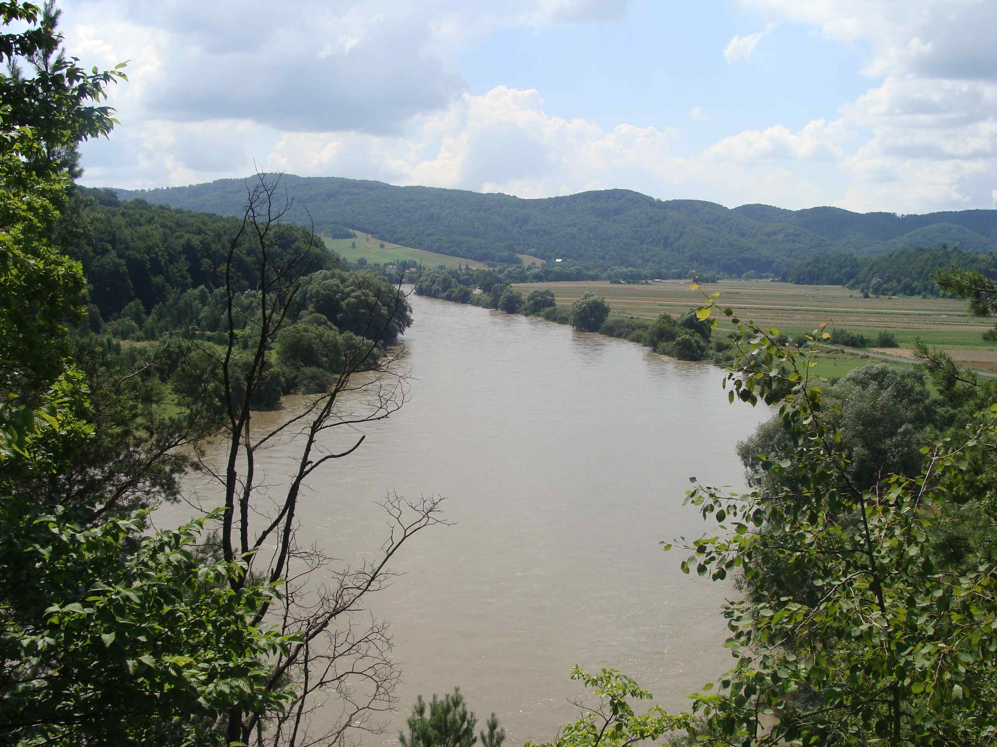 San River.